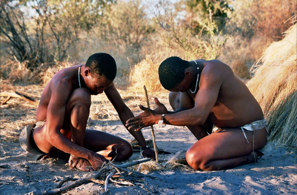 Bushmen in Deception Valley, Botswana demonstrating how to start a fire by rubbing sticks together.